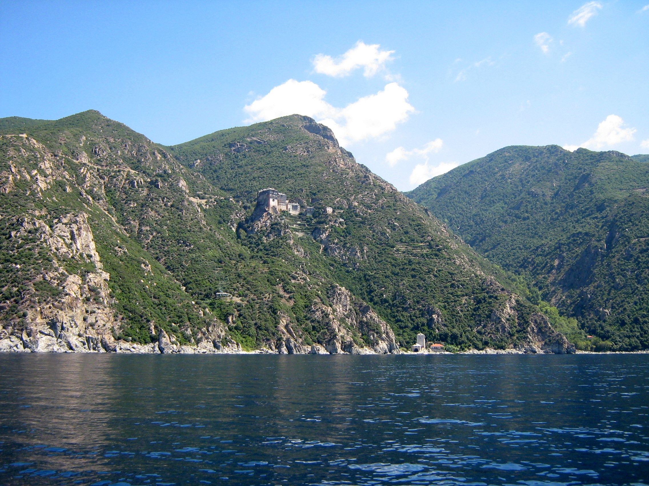 Mount Athos, Simonos Petras monastery